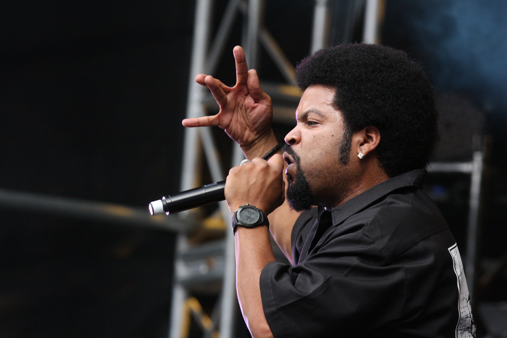 Ice Cube playing Supafest 2012, Sydney, Australia